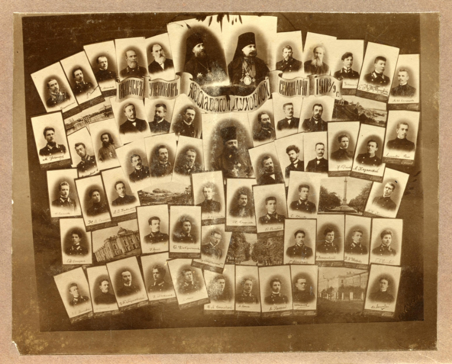 Graduates of the Yaroslavl theological seminary 1909